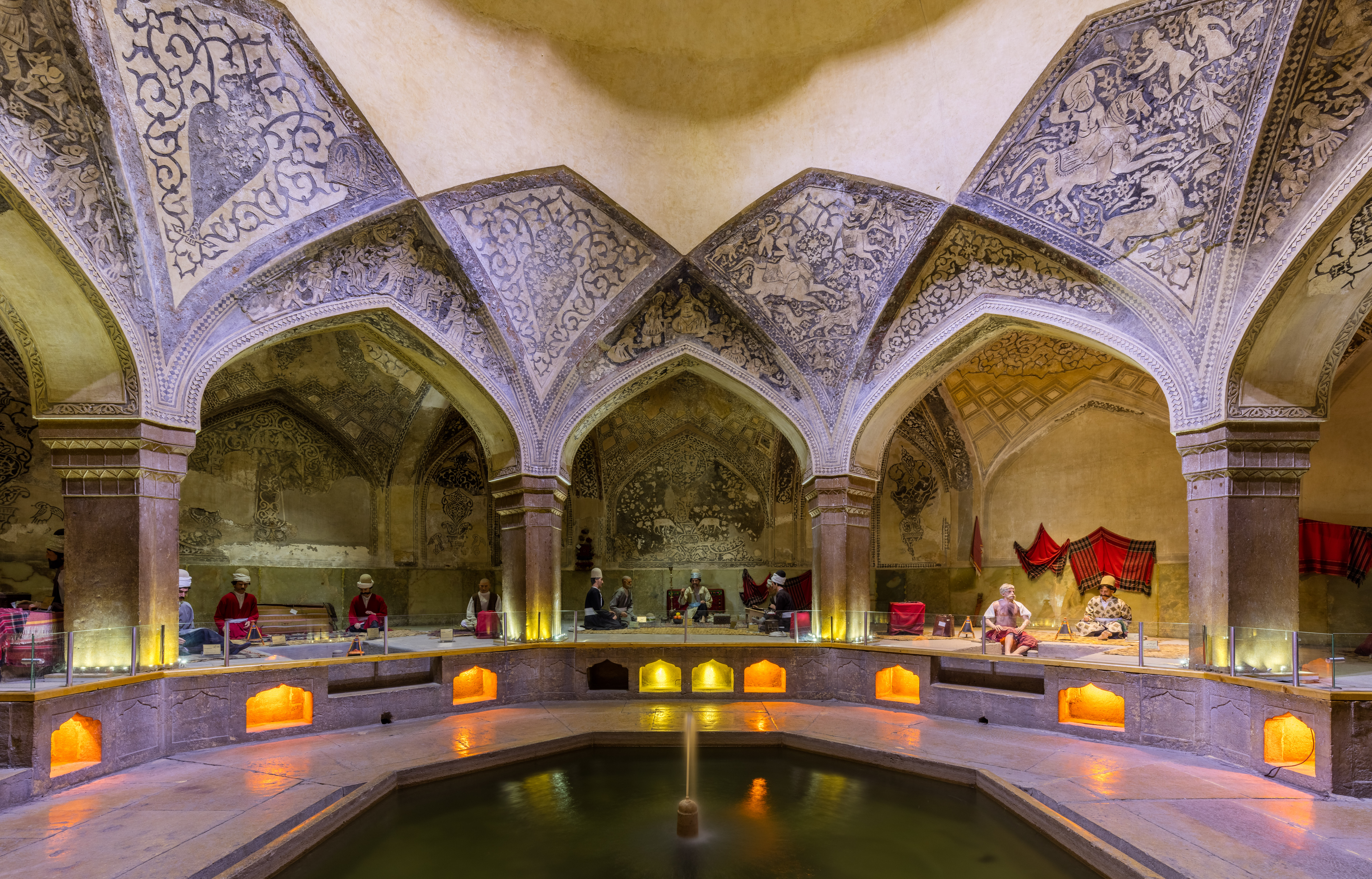 Vakil Bath, an old public bath with the status of national monument built around 1769 in Shiraz, Iran. It was a part of the royal district constructed during Karim Khan Zand's reign, which also includes Arg of Karim Khan, Vakil Bazaar, Vakil Mosque and many administrative buildings.